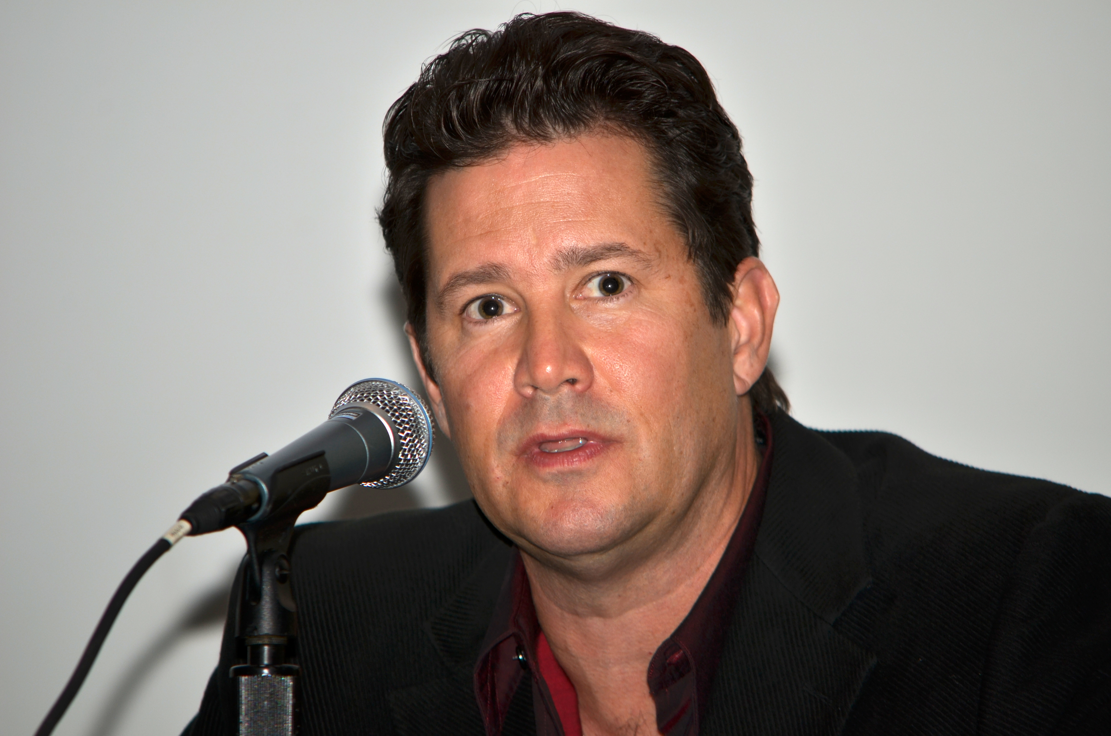 Charlie from the original FRIGHT NIGHT. (Or from HERMAN'S HEAD, if you must)